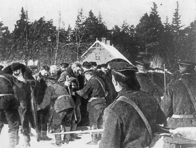 Russian troops in Tallin, striking with the oppositors of the russian empire.